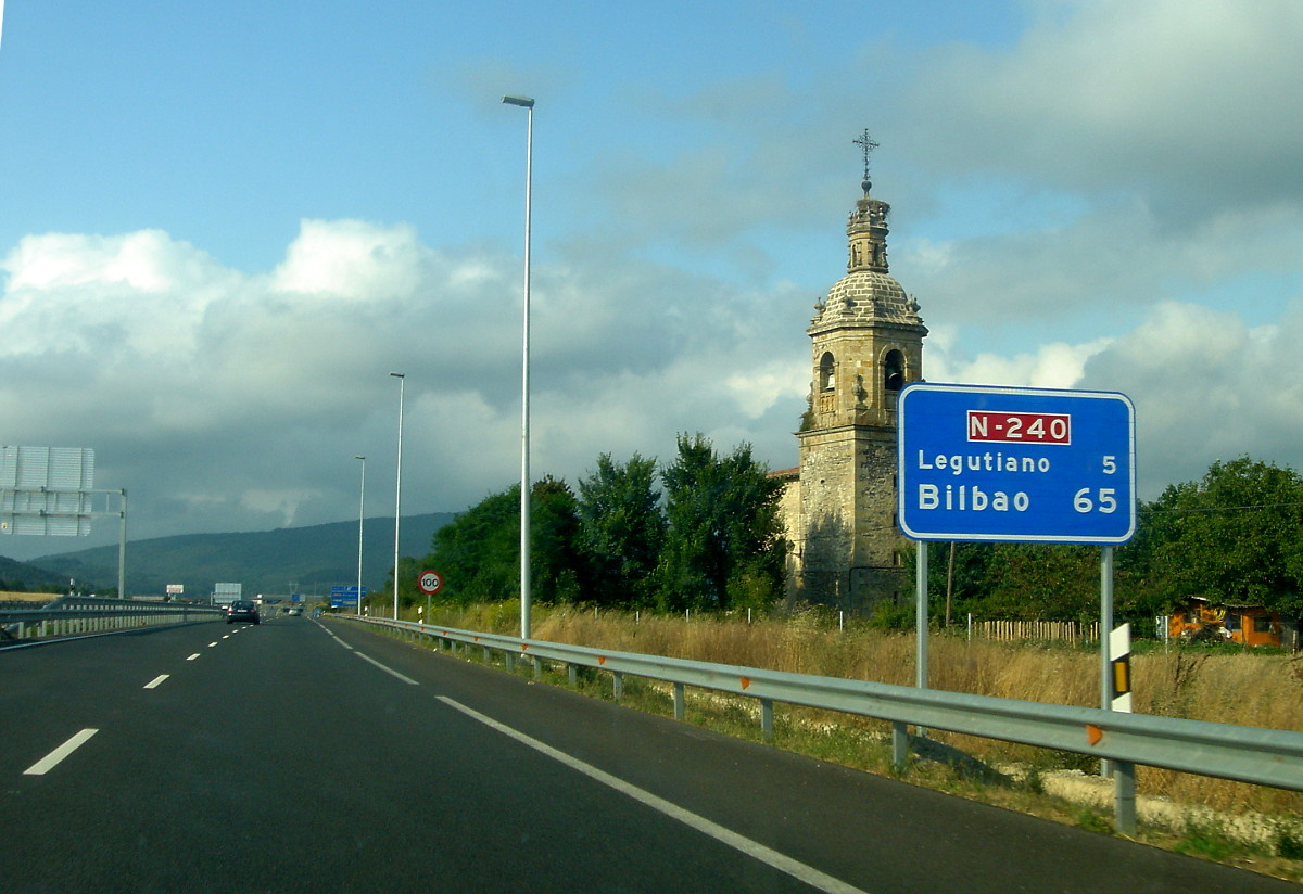 Church of Luku (Araba, Basque Country, Spain)